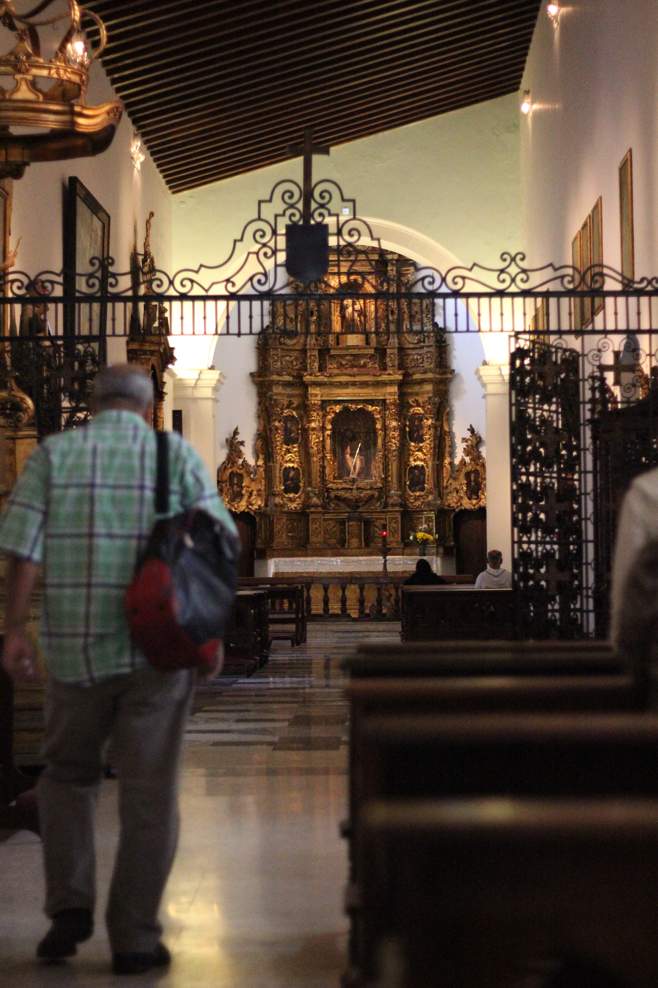 Left aisle of the Church of San Francisco, Caracas.